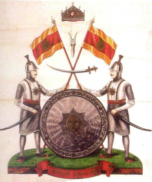 British Crown is at top.Two soldiers are holding two flags.Image of the sun is between them.The clan to which Hari Singh belonged claimed to have descended from the sun.The sword crossing the two flags may signify the posession of the State by force by the Dogra rulers.The inscription at bottom need to be deciphered.